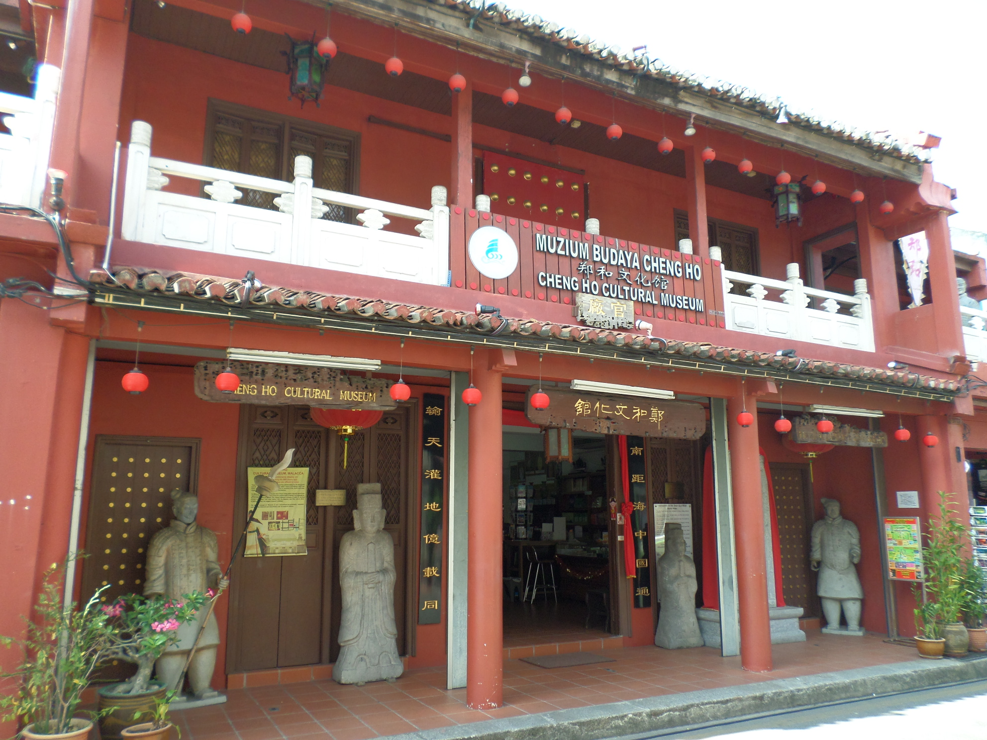 Cheng Ho Cultural Museum, Malacca, MalaysiaBahasa Melayu: Muzium Budaya Cheng Ho, Melaka, Malaysia